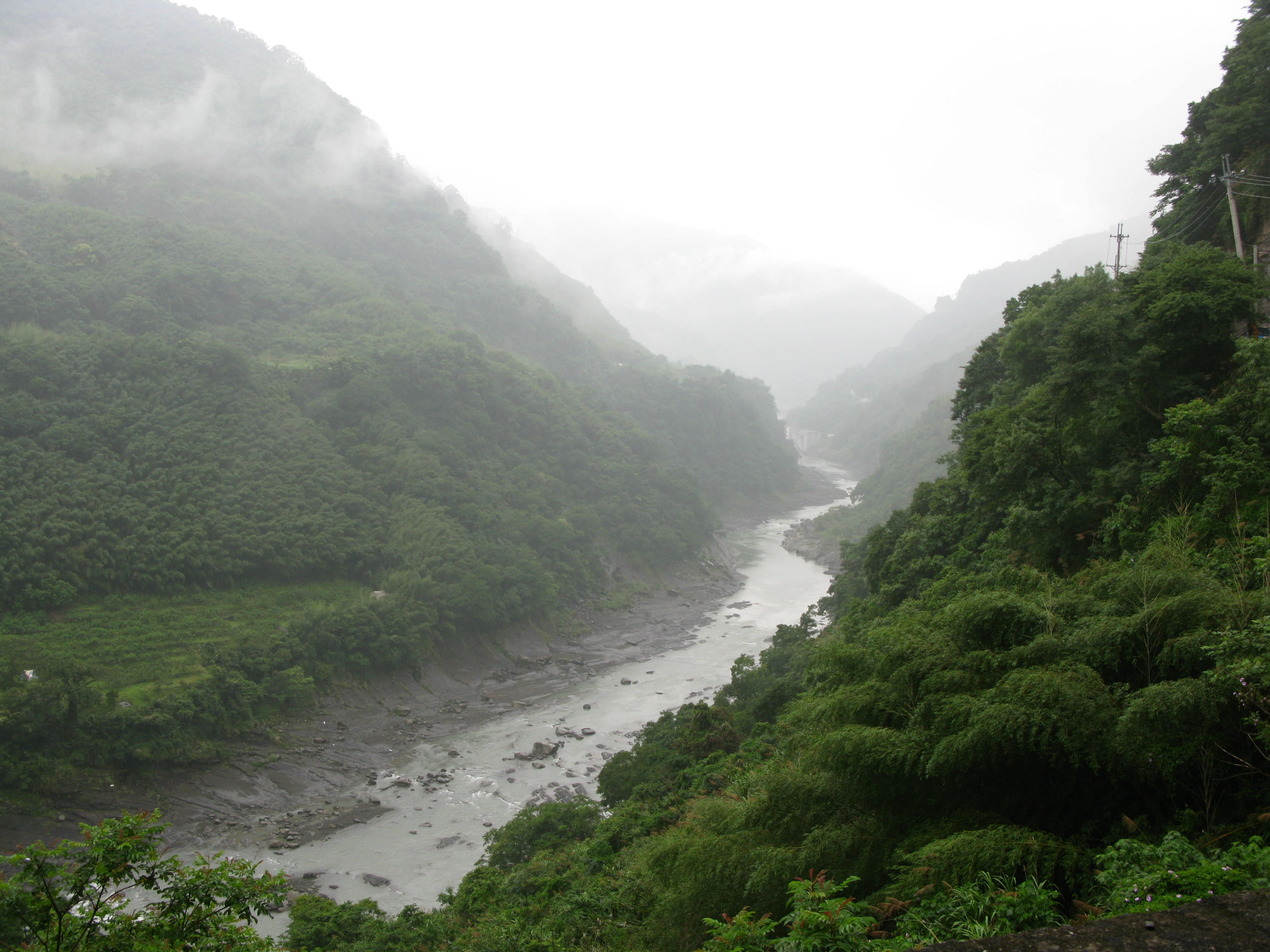 The valley of San Guang River, Fusing, Taoyuan, Taiwan.中文（台灣）: 位於臺灣桃園縣復興鄉北橫公路沿線的三光溪河谷